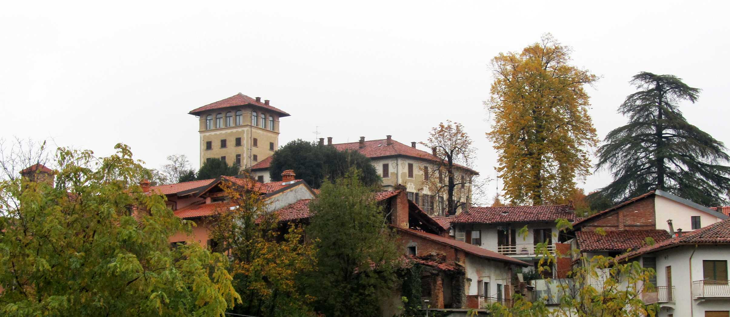 Mercenasco (TO, Italy): panorama